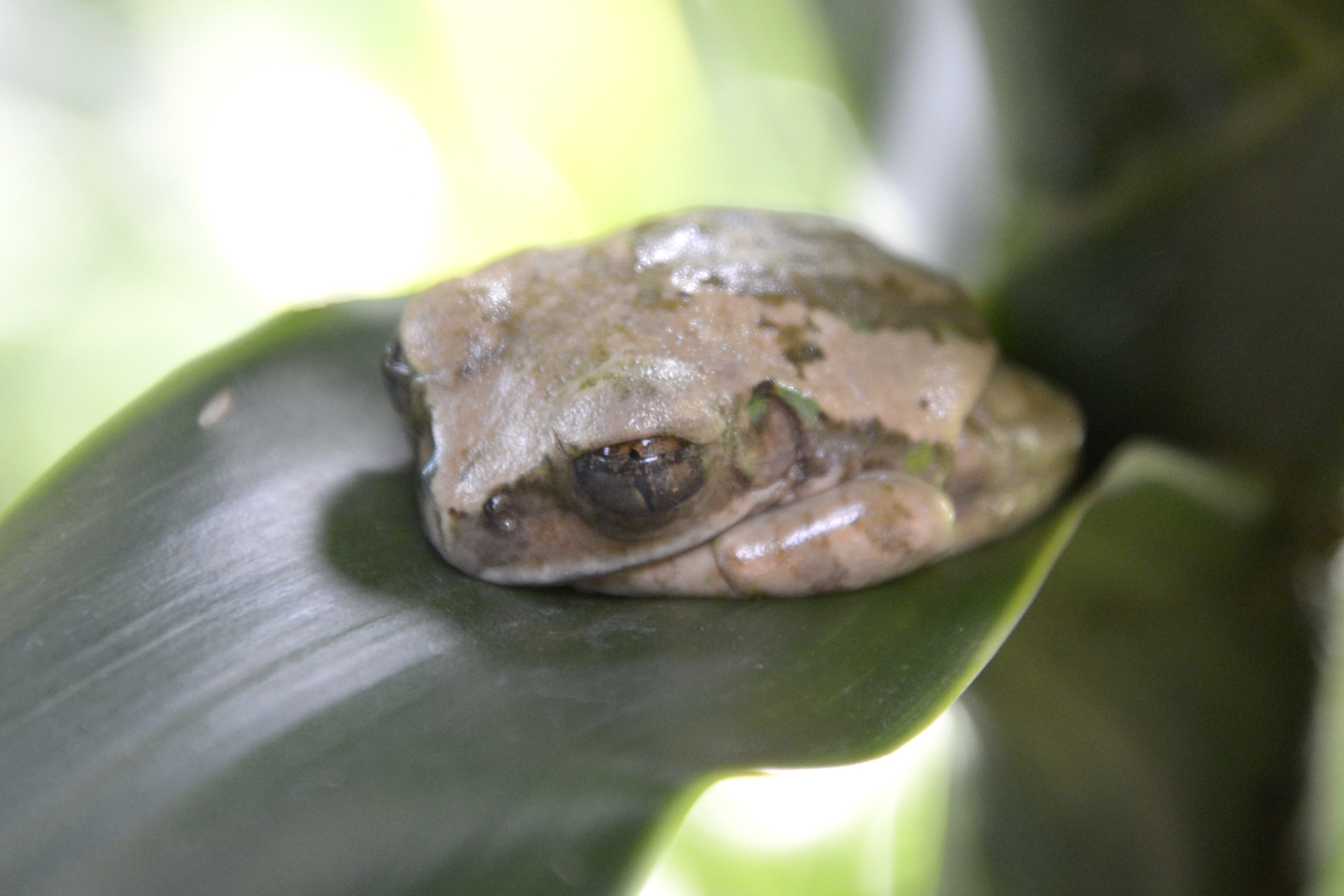 Yellow-spotted tree frog (Leptopelis flavomaculatus) in the greenhouse of MUSE - Science Museum in Trento.